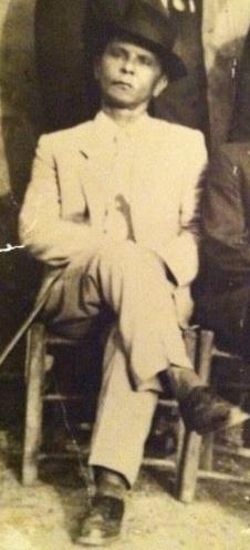 1947 Black and White photo of R.D. Urey in his hayday